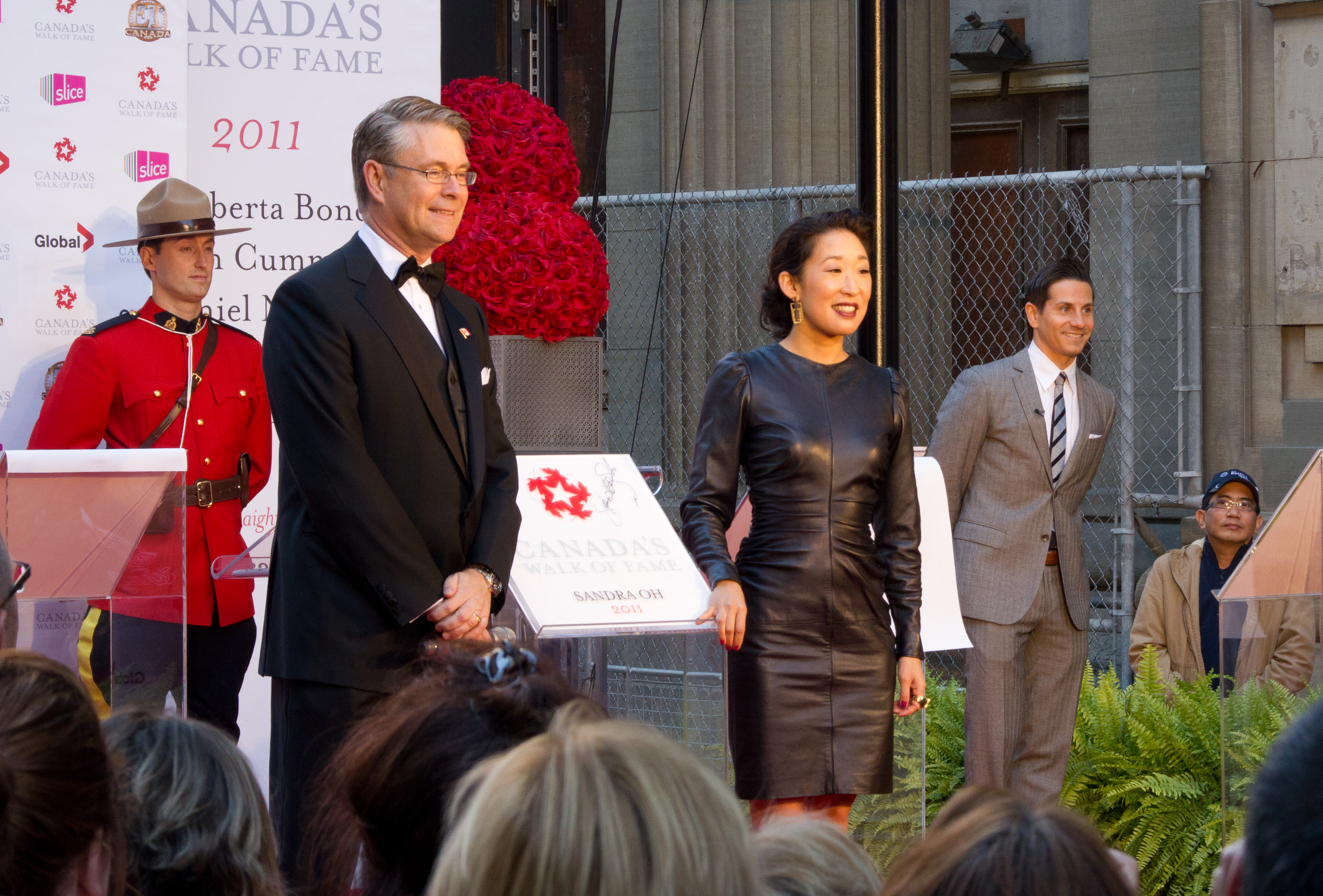 Sandra Oh (in black dress) at the gala for Canada's Walk of Fame.